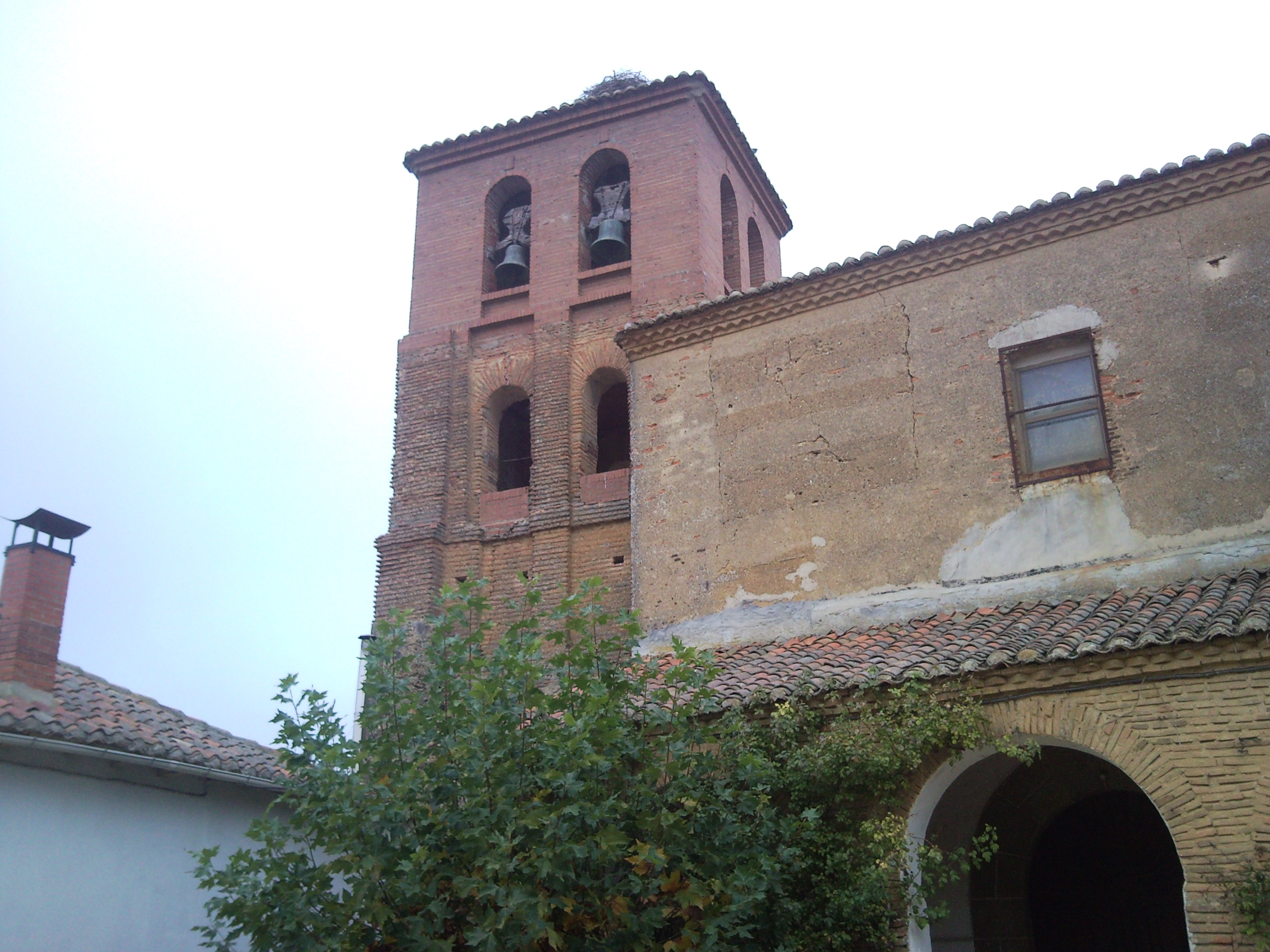 Church of Santiago Apóstol in Velillas del Duque, Palencia, España